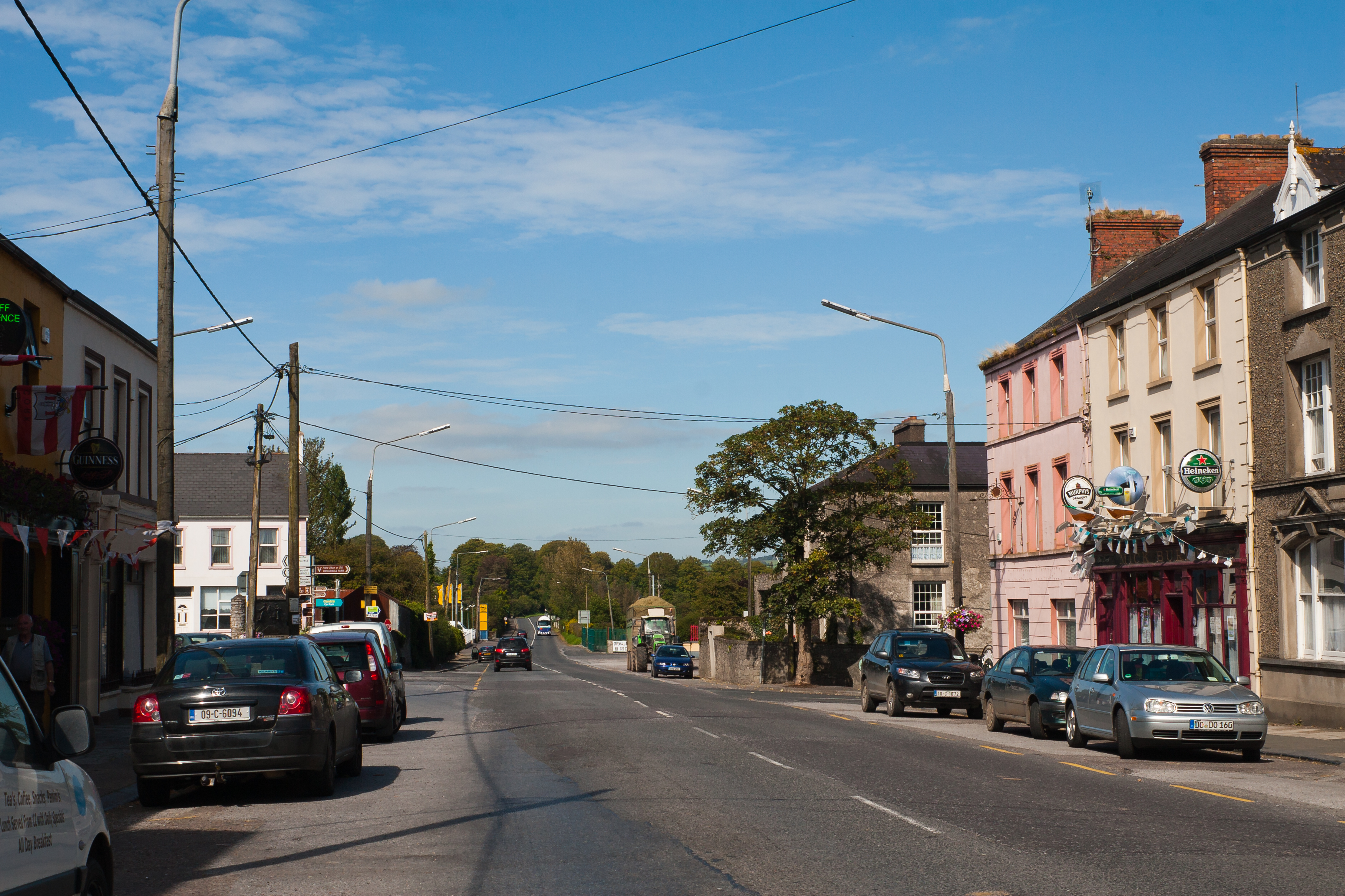 Main Street (N20) in Buttevant, close to the intersection with the R522, looking north.